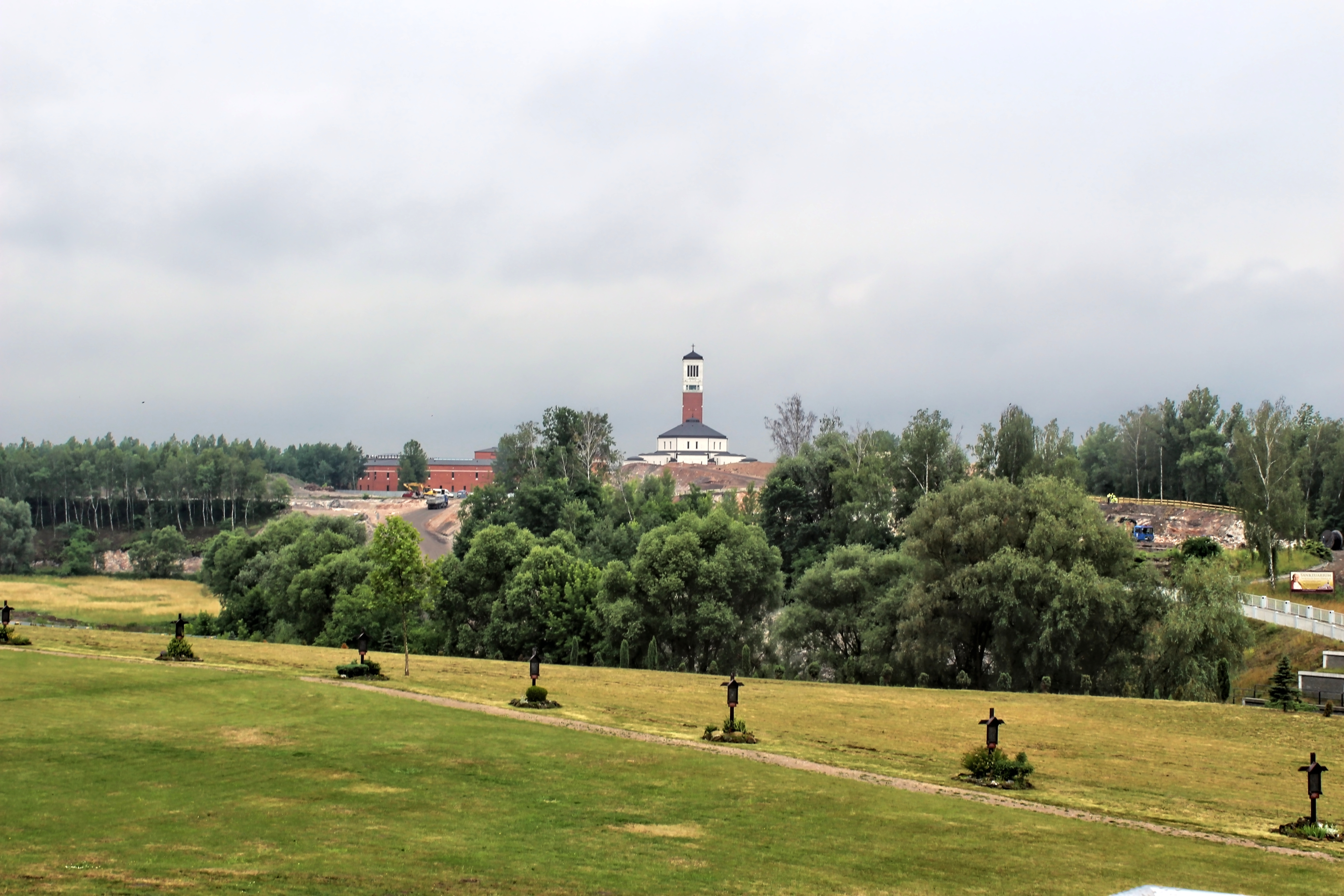 Kraków, view from the tower of The Divine Mercy sanctuary to St. John Paul II church